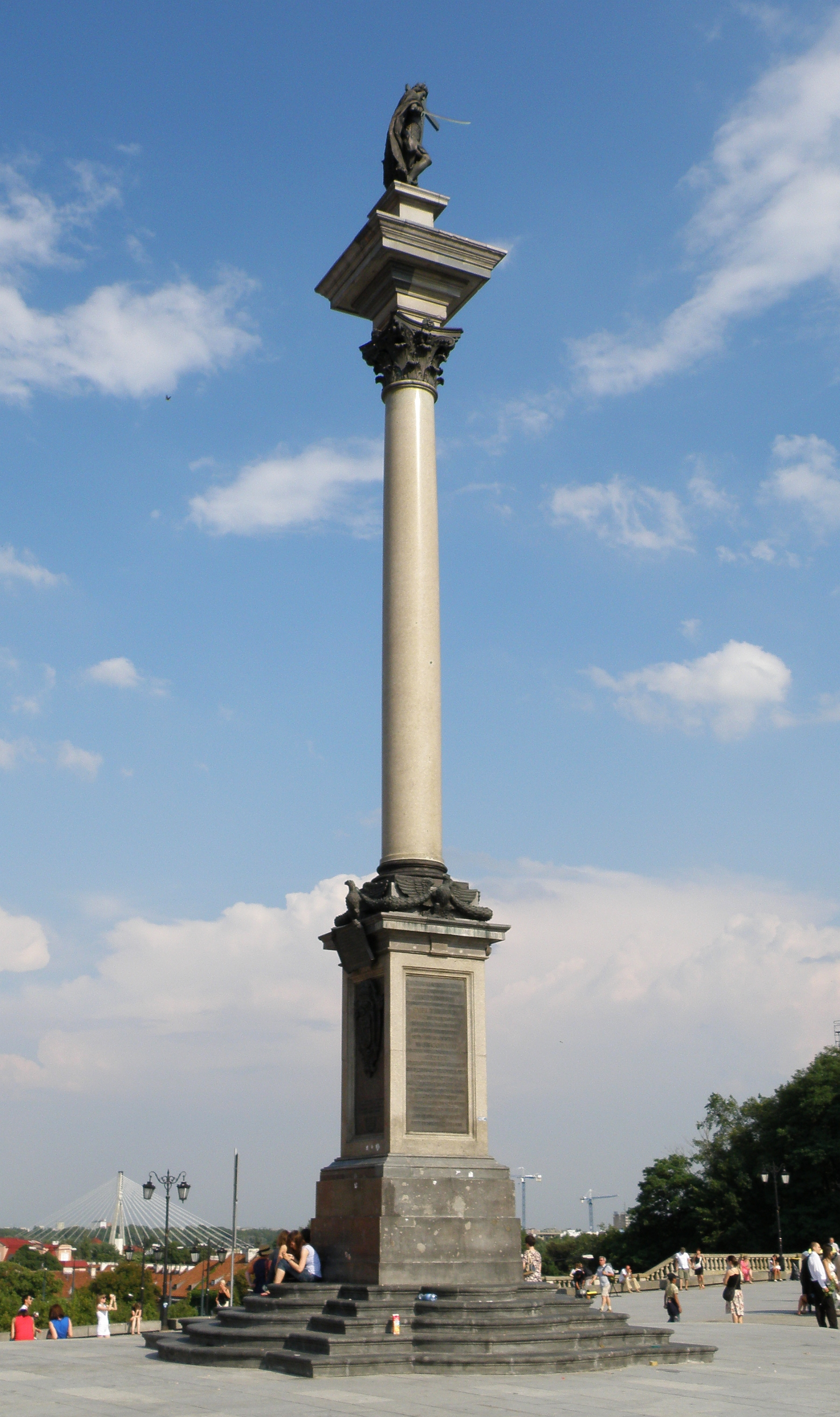 Poland, Zygmunt`s Column in Warsaw